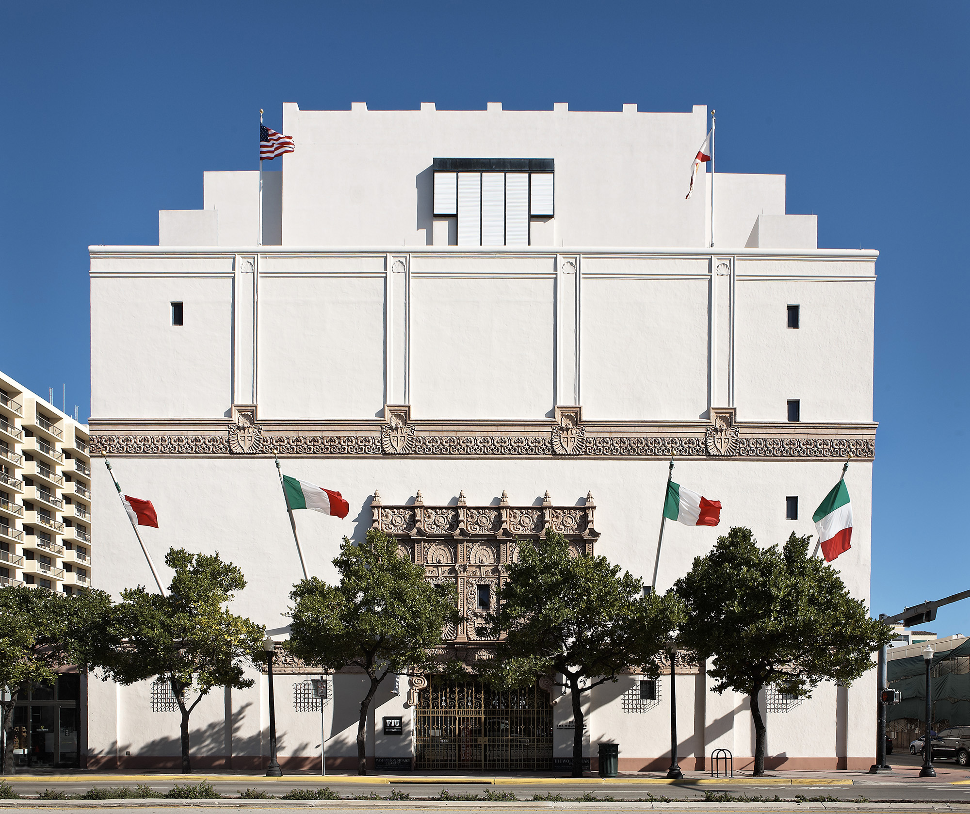 The Wolfsonian–FIU, founded by Mitchell "Micky" Wolfson, Jr., was originally built in 1927 by Robertson & Patterson to house the Washington Storage Company. The Mediterranean Revival building is on the corner of 10th Street and Washington Avenue and has been a beacon of culture in Miami Beach for generations. The structure was enlarged and transformed in 1992 by architect Mark Hampton into the state-of-the-art museum it is today. With more than 200,000 objects, the collection contains a vast universe of ideas: household appliances that sped the pace of work; designs that bridged cultures; architectural plans fueled by ambition; and propaganda that helped turn the tides of war. The core focus is material from Europe and the United States, extending to regions of Latin America, Asia, and Africa.